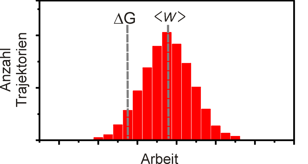 work distribution to explain the fluctuation theorem